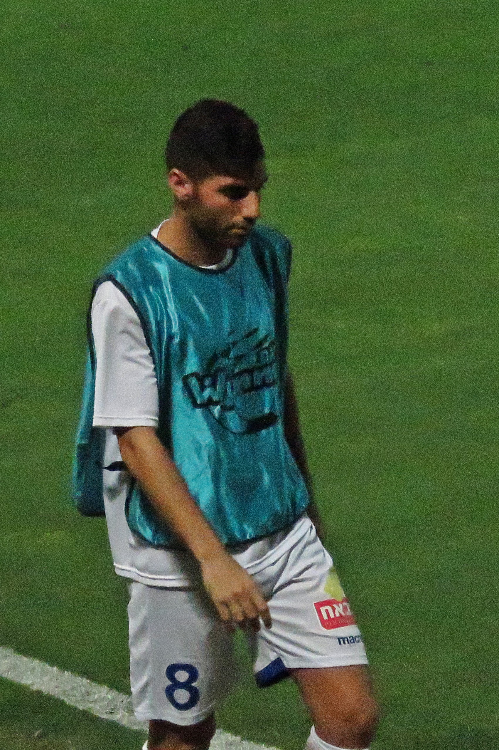 Bnei Yehuda Tel Aviv vs. Hapoel Acre - August 31, 2015